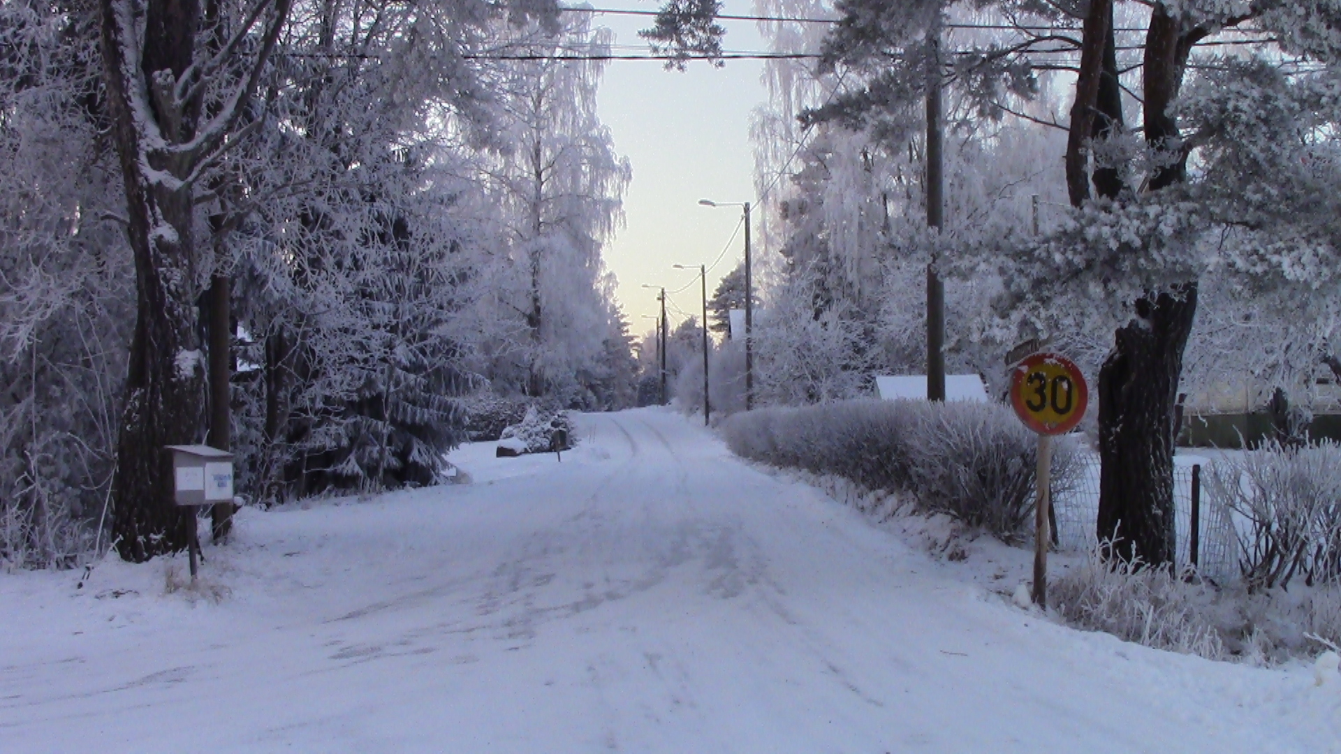 Vuohimäki village as seen from the beginning of Laikuntie road in Nakkila, Finland.